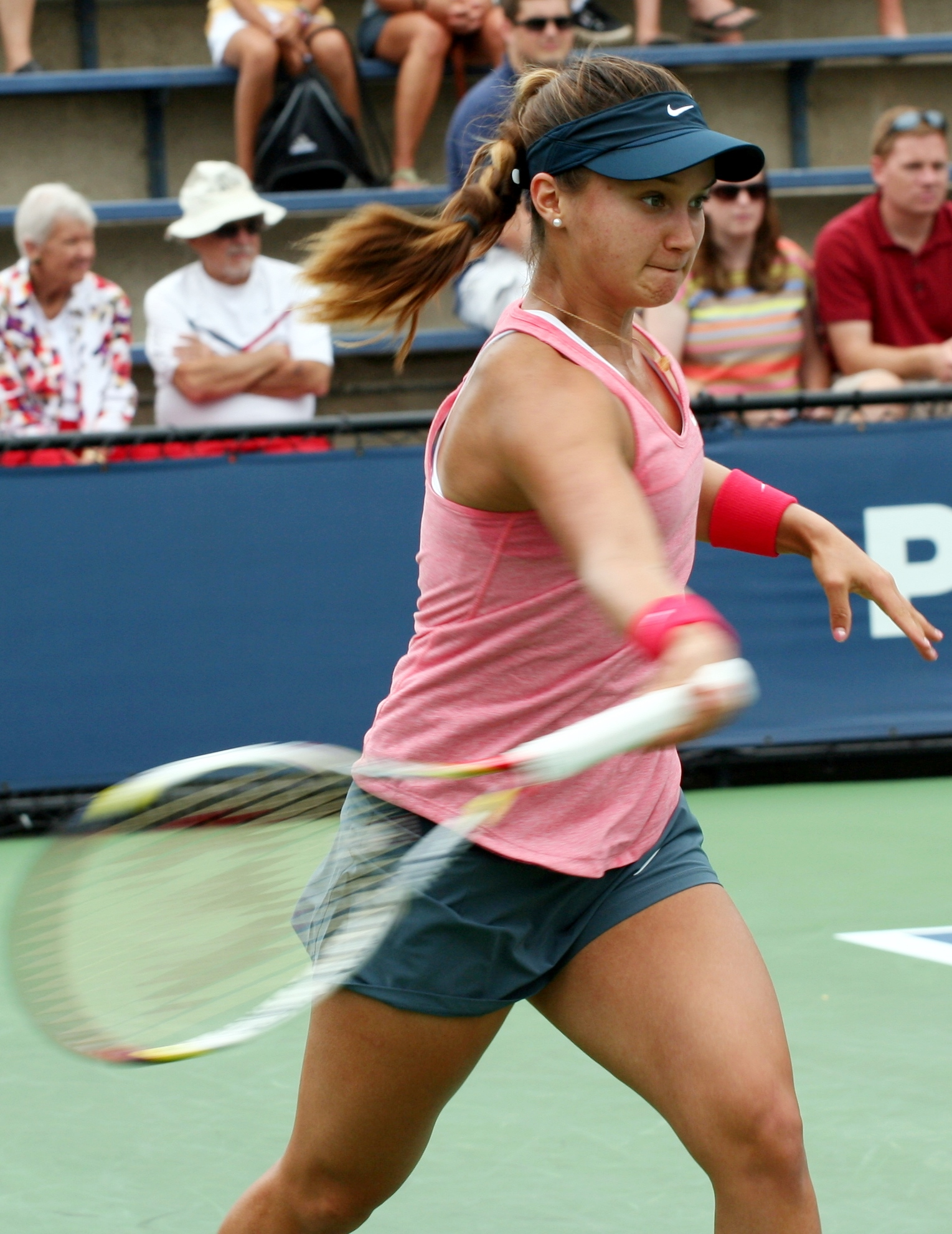 Lauren Davis at the 2013 US Open